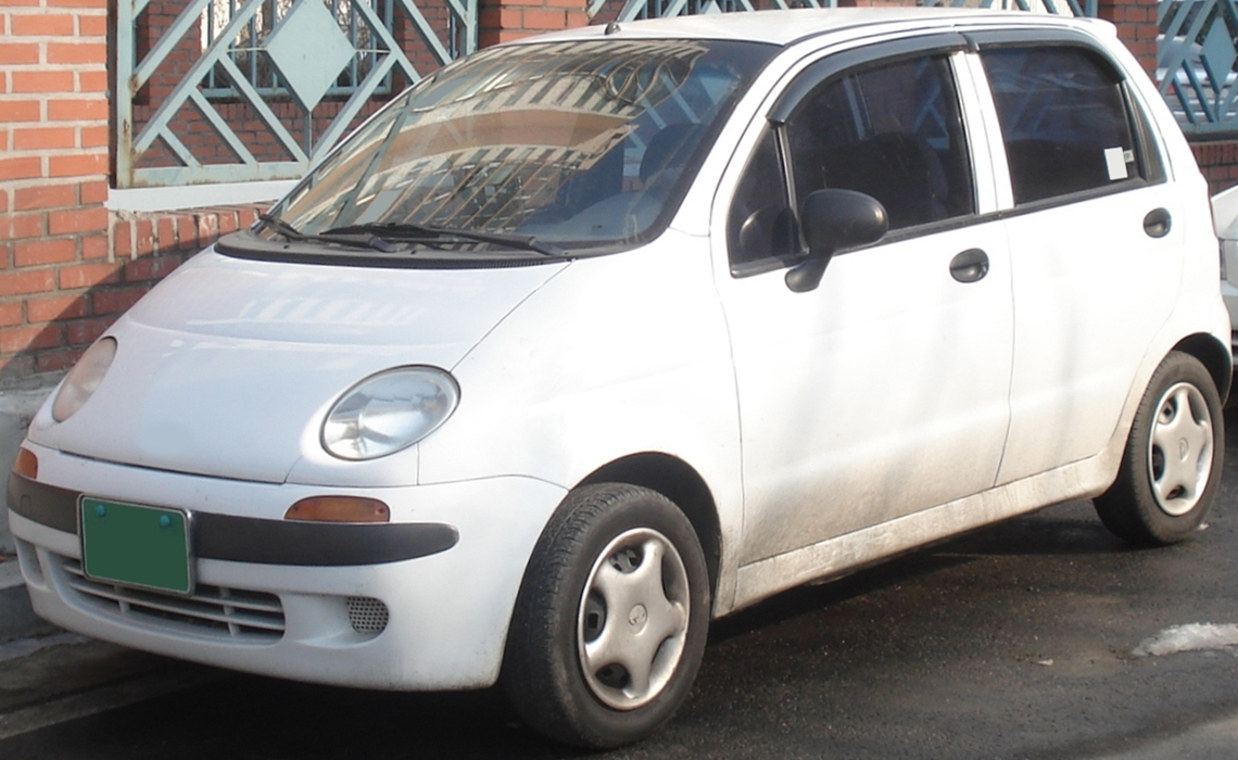 Daewoo Matiz